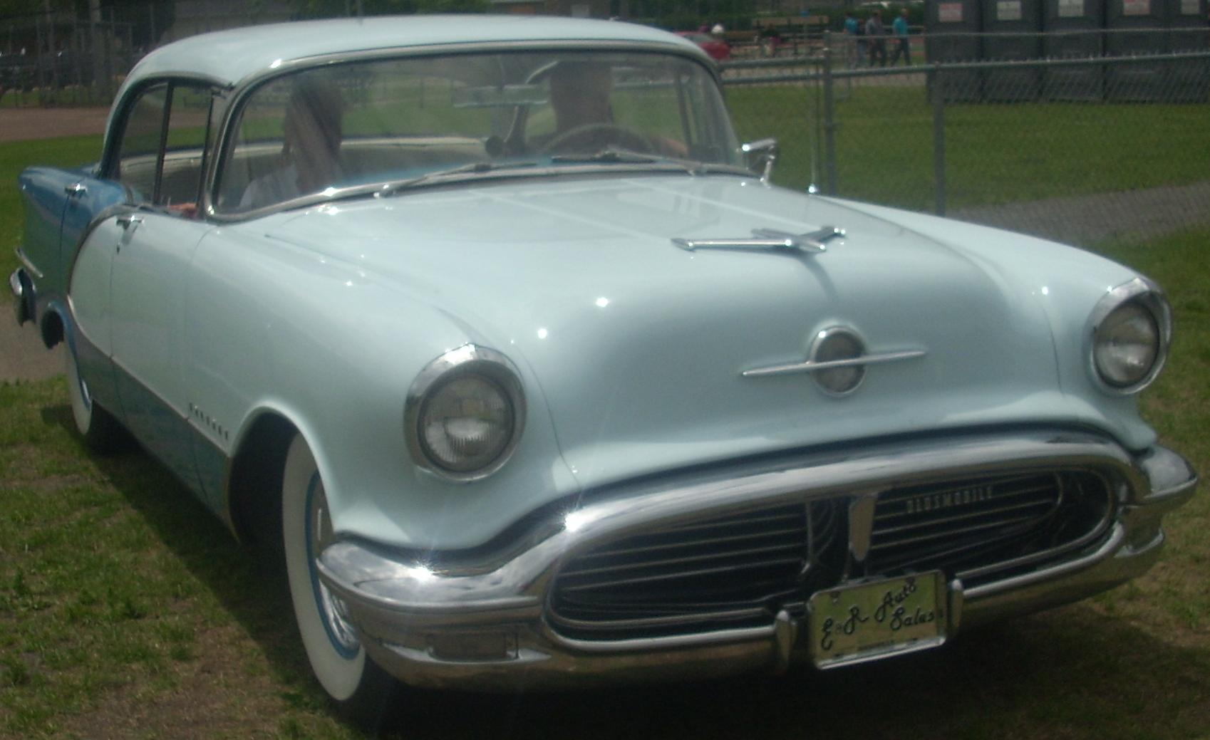 1956 Oldsmobile 98 photographed in St. Lazare, Quebec, Canada at the 2010 St. Jean Baptiste Classic Car Show.